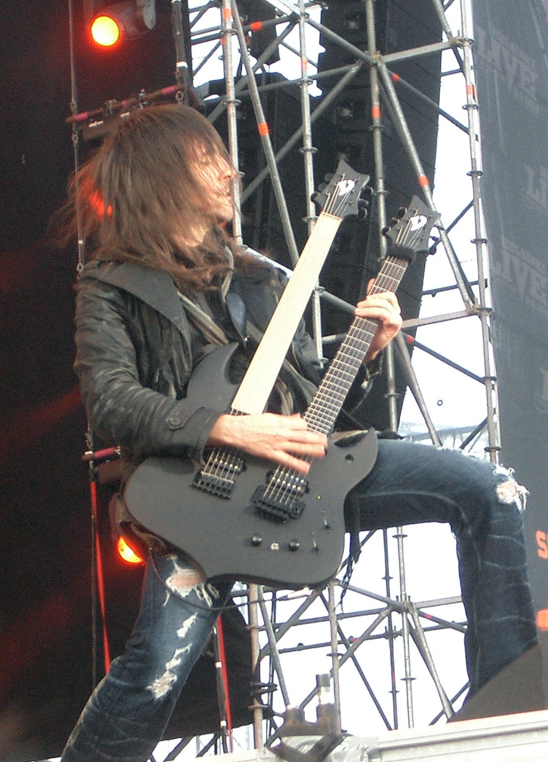 Ron "Bumblefoot" Thal live with Guns N' Roses in Helsinki on June 5th 2010